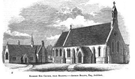 Church of St John the Baptist Church, Kidmore End, Oxfordshire in 1852 designed by the architect Arthur Billing